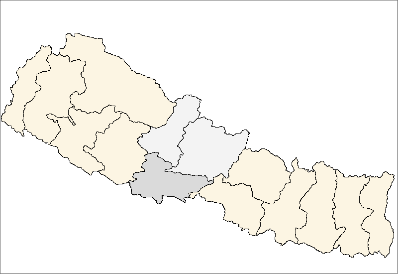 FrenchCarte de localisation de lazone de Lumbinî(wp-FR),au Népal (wp-FR).EnglishLocation map ofLumbini Zone(wp-EN),in Nepal (wp-EN).